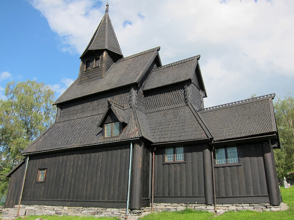 Urnes stave church